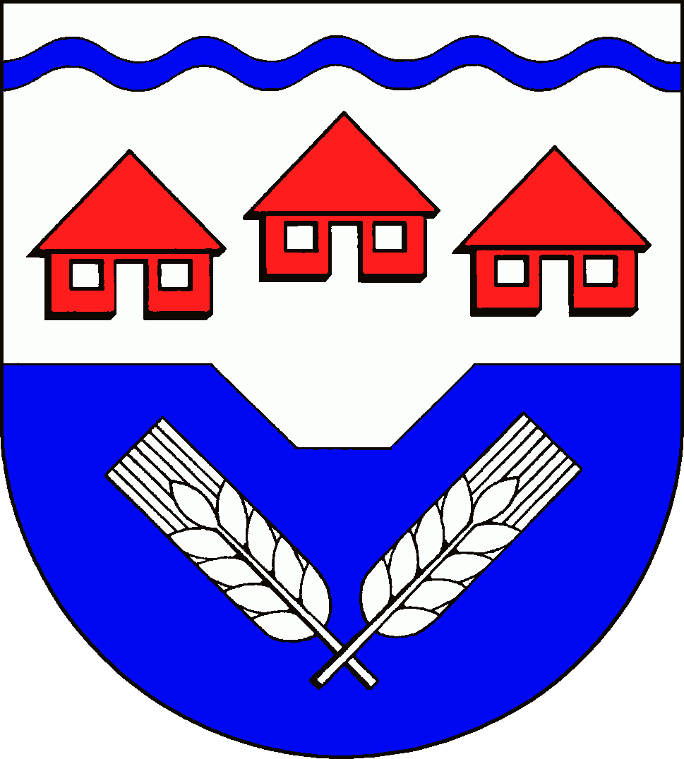 Coat of arms of the municipality Holstenniendorf in Schleswig-Holstein, Germany.